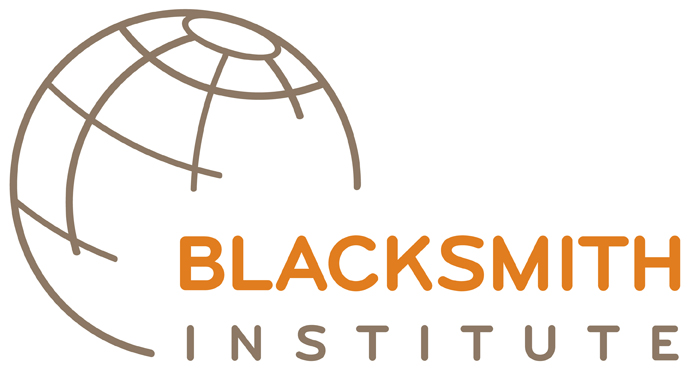 2008 Blacksmith Institute Logo